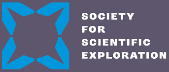 Society for Scientific Exploration Logo PNG